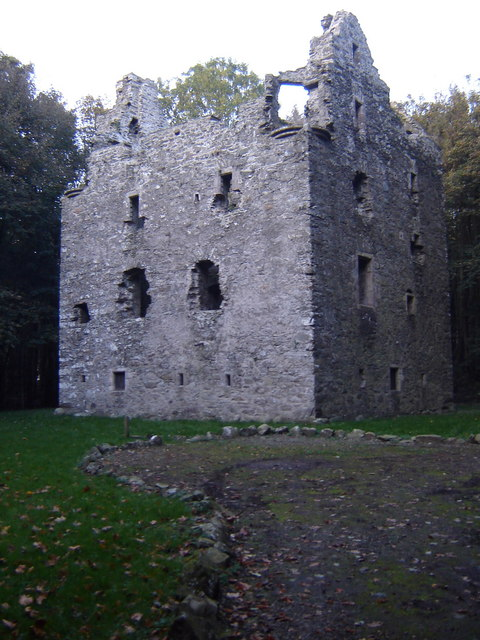 Sorbie Tower Sorbie Tower is the ancestral home of the Clan Hannay.